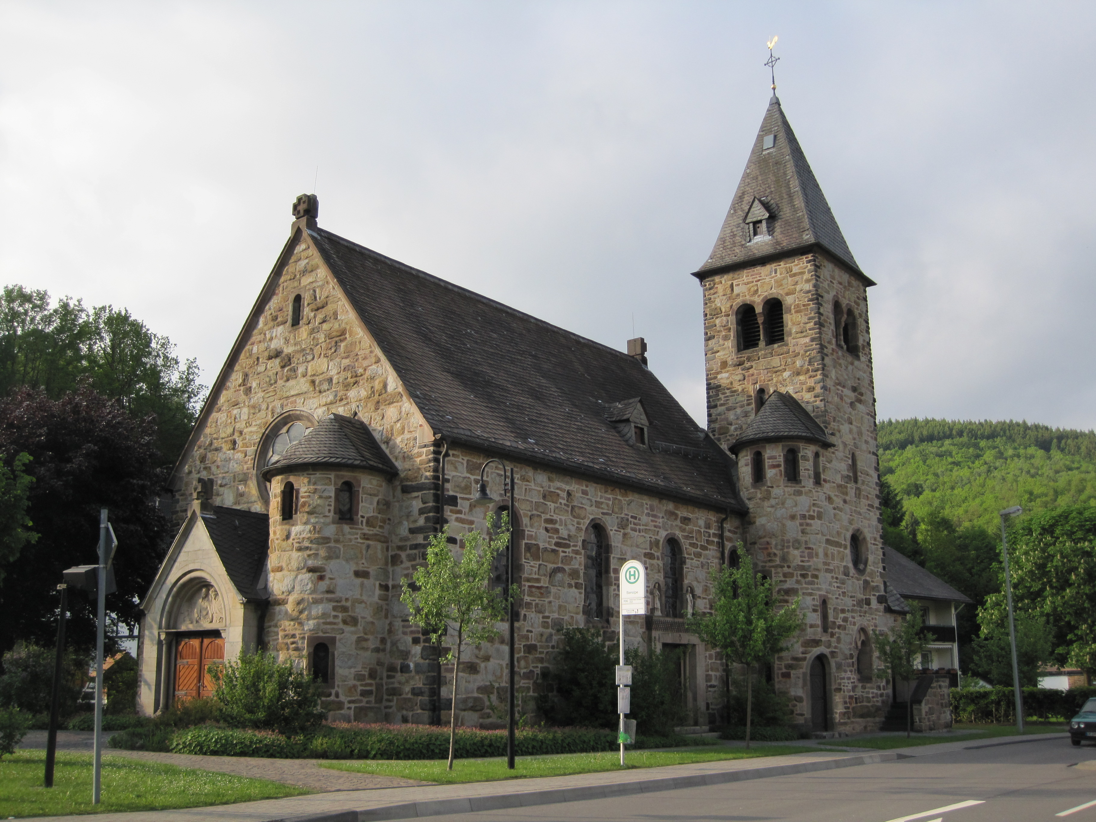 St. Elisabeth Benolpe, Kirchhundem, Germany check usage